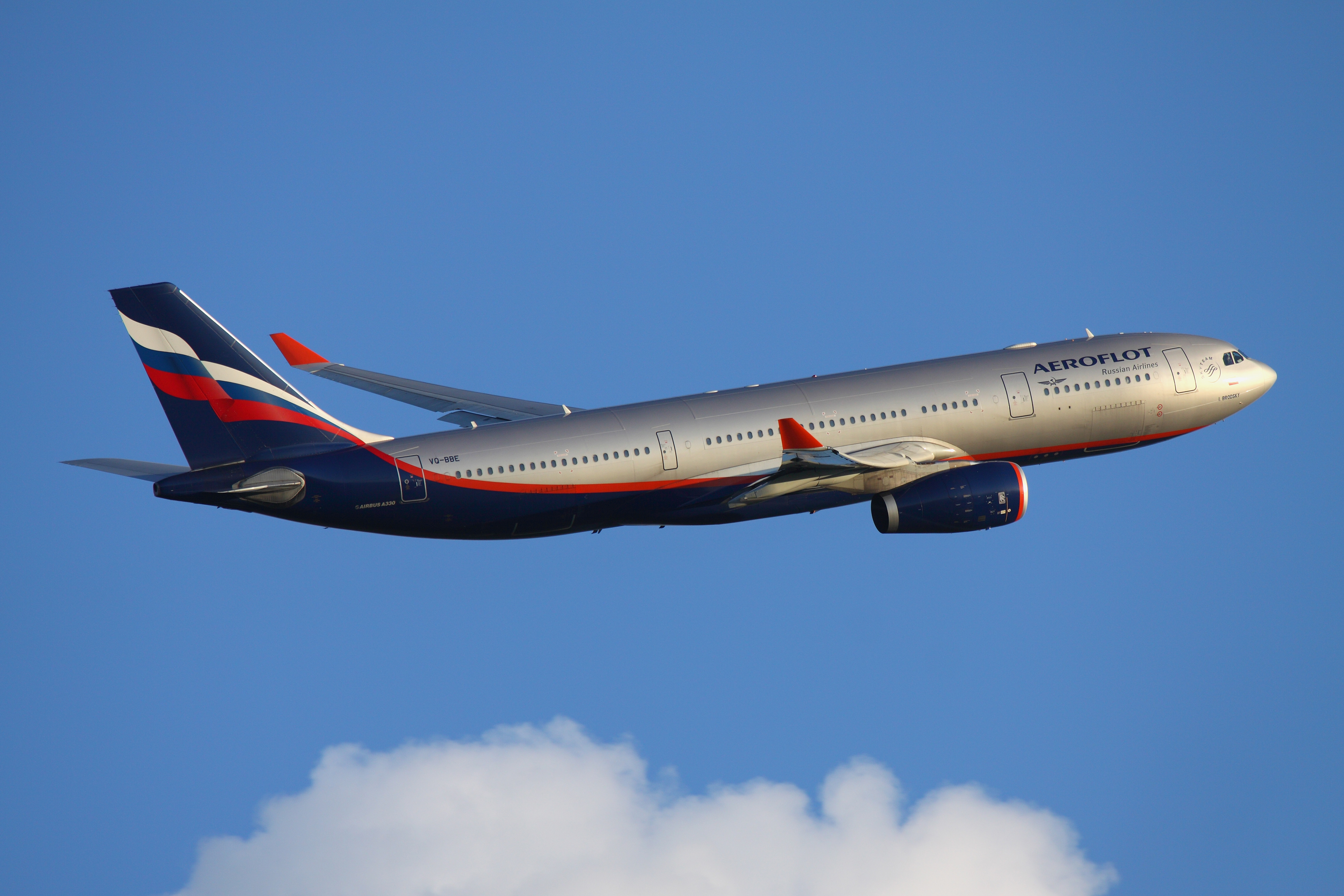 An Aeroflot Airbus A330-200, named after J. Brodsky, as it climbs out of Sheremetyevo Airport.